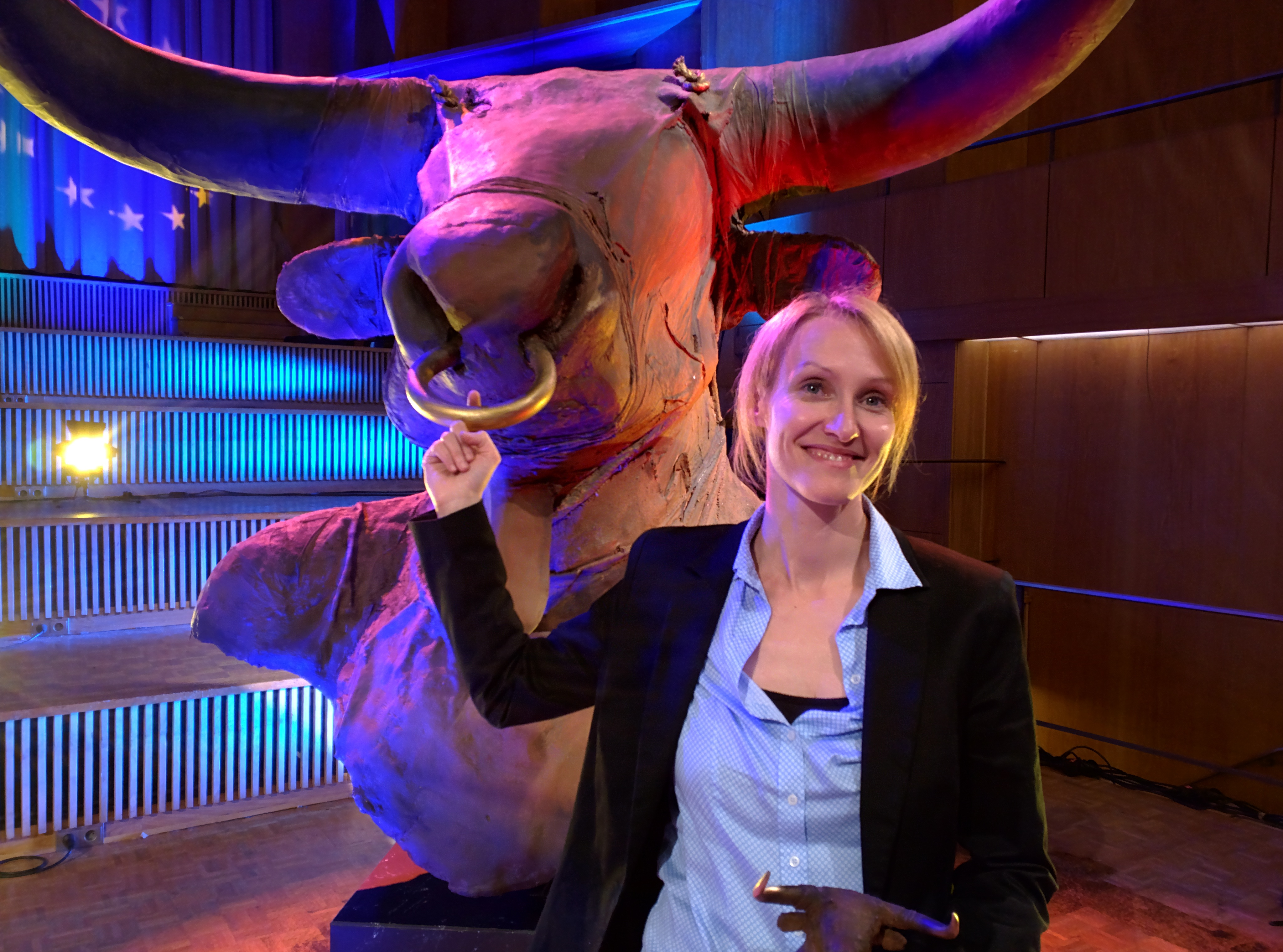 Nicole Armbruster at the award ceremony of the Prix Genève 2015